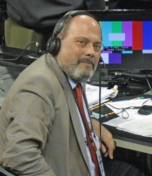 Joe D'Ambrosio, voice of the University of Connecticut Huskies, at the 2011 NCAA Men's Final Four at Reliant Stadium in Houston, Texas.